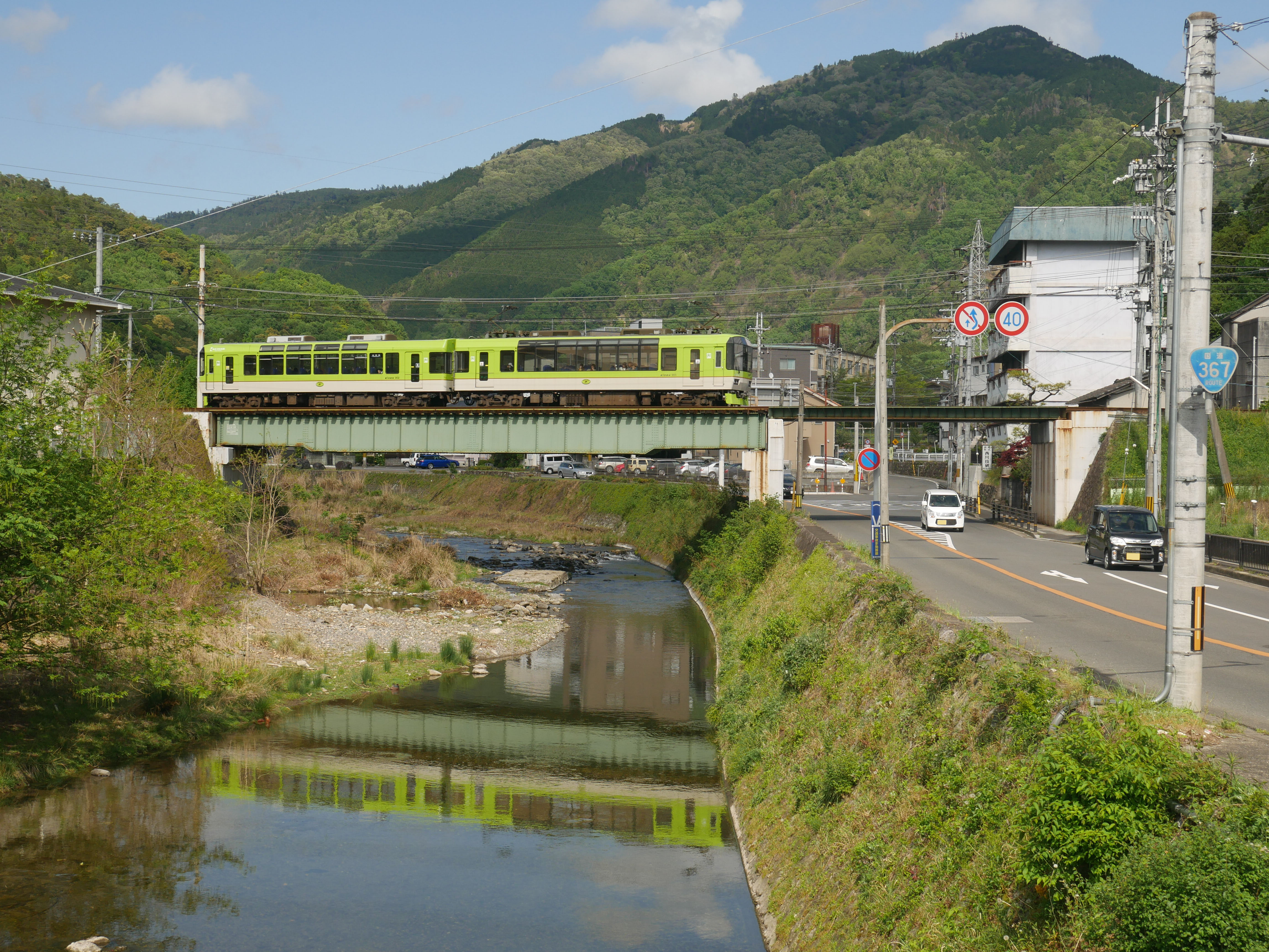 Eizan Electric Railway DEO (large size driving motor car)901 and 902 running over Takanogawa river